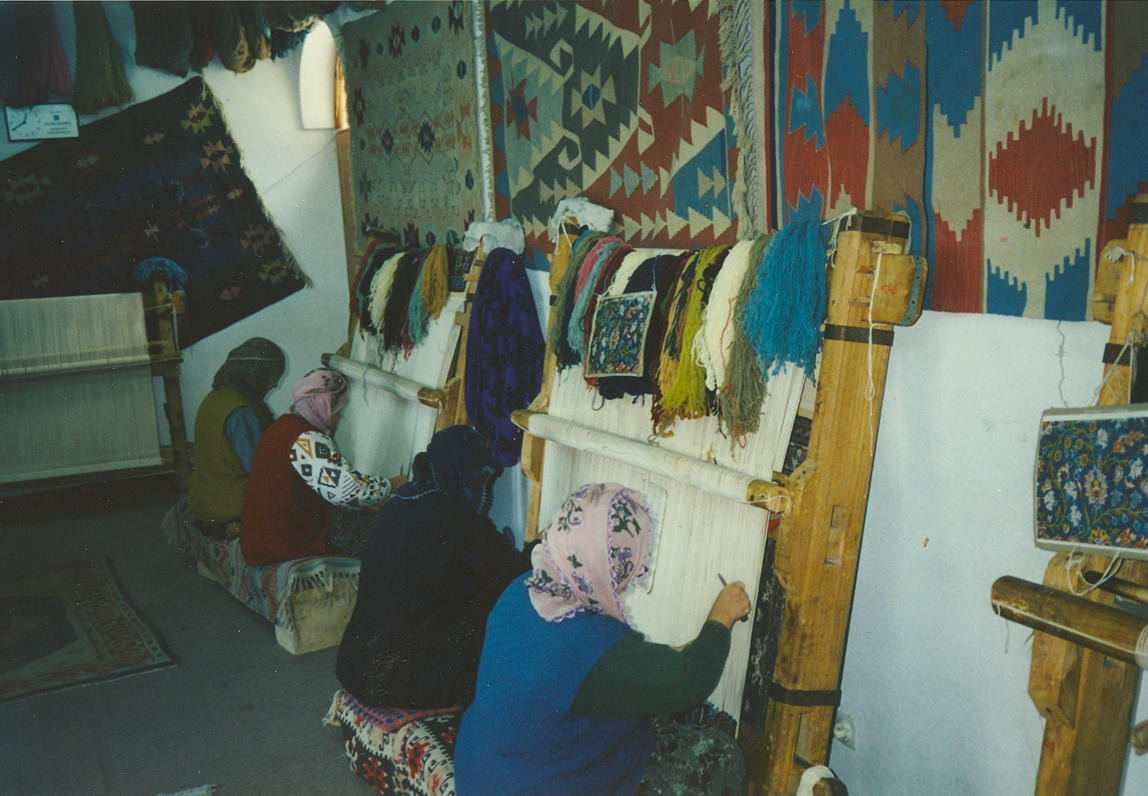 Turkish carpets being woven near Kapadokya